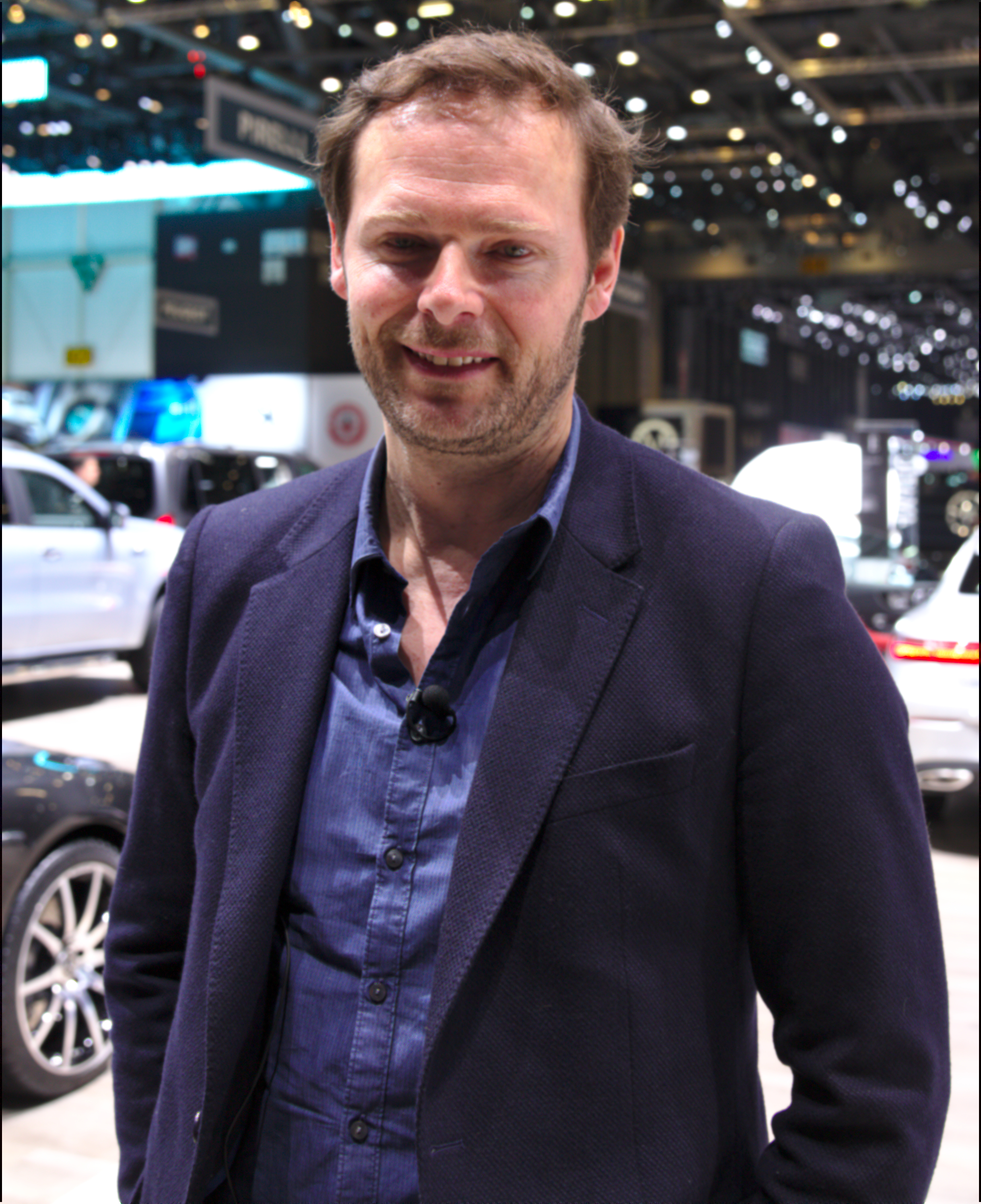 Alexander Bloch at Geneva Motorshow 2019